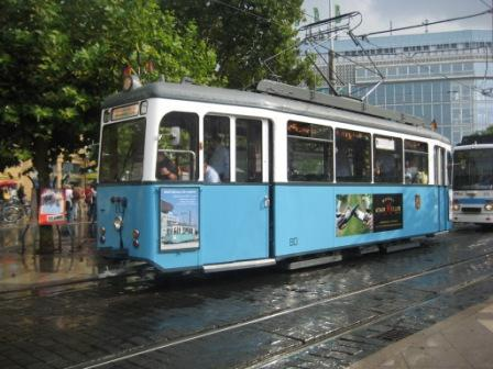 Last functionally Tramway "Verbandstyp II" in Heidelberg, built at the former Heinrich Fuchs Tramwayfactory in 1956.